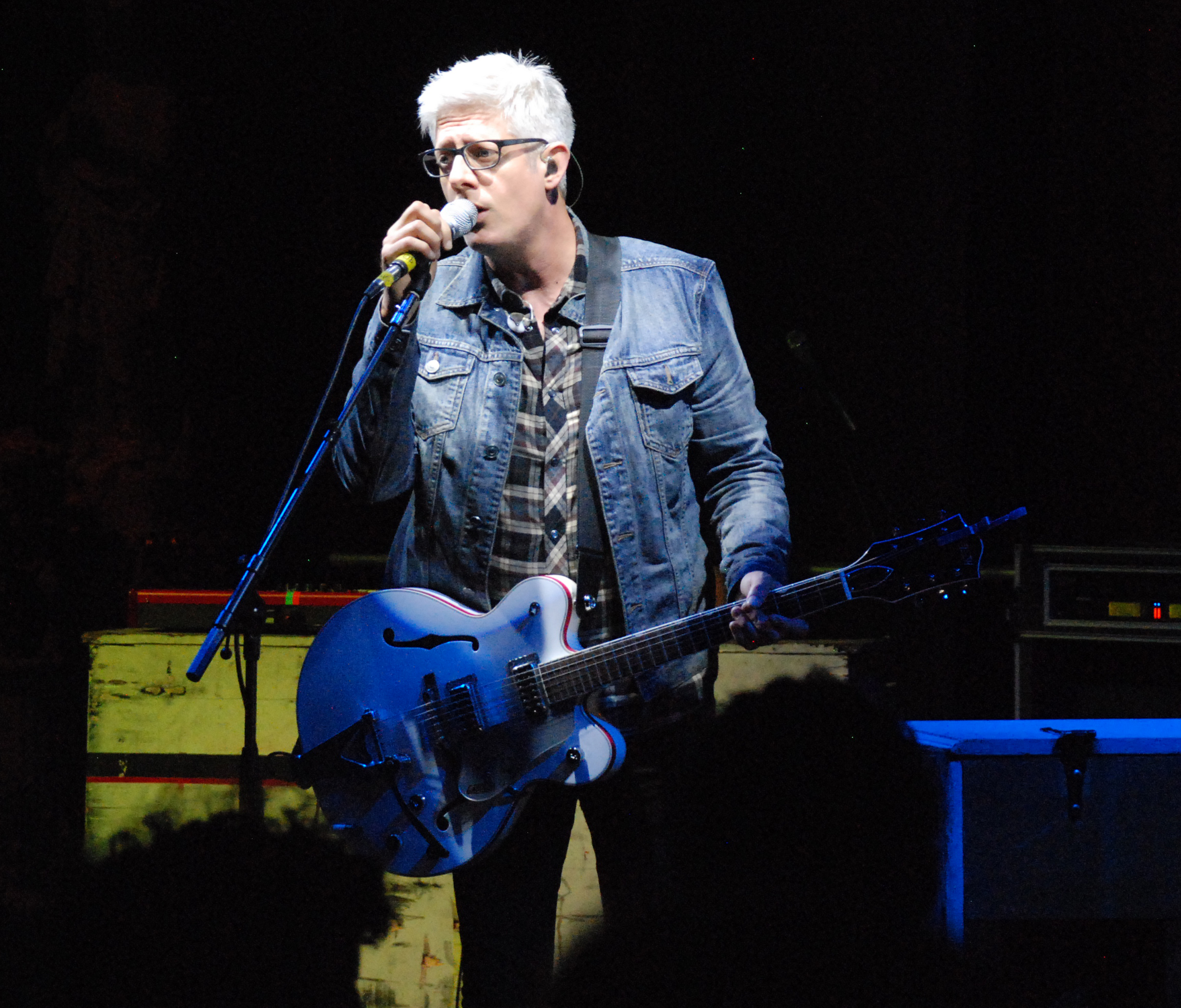 Photograph of Matt Maher taken Friday, Aug. 7, 2015, at Century II in Wichita, Kansas.